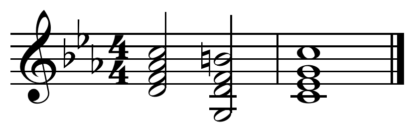 ii-V-I turnaround in C minor.